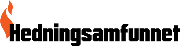 Logo of the Norwegian Heathen Society (Hedningsamfunnet or Det norske Hedningsamfunn, DnH).